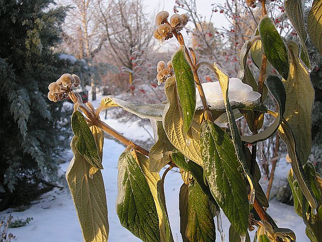 Viburnum rhytidophyllum at winter